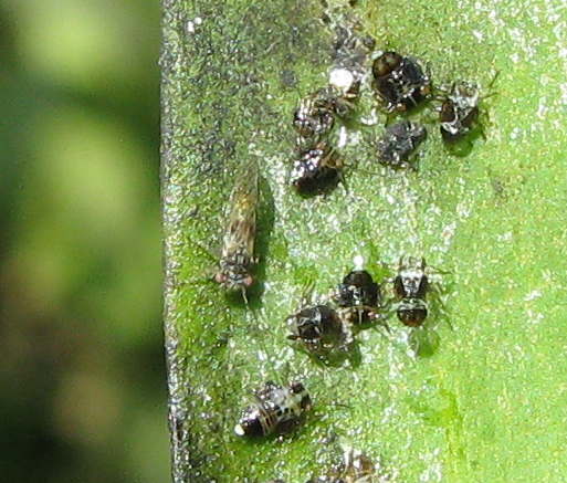 Acizzia uncatoides adult and nymphs on Acacia melanoxylon, showing sugars and sooty mould. Prebbleton, New Zealand, August 2009.